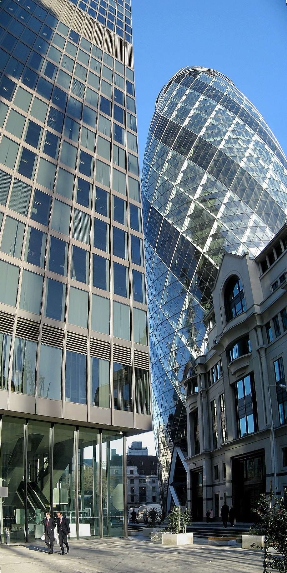 30 St Mary Axe, the 2nd tallest building in the City of London. Photo taken by Will Fox in December 2005.